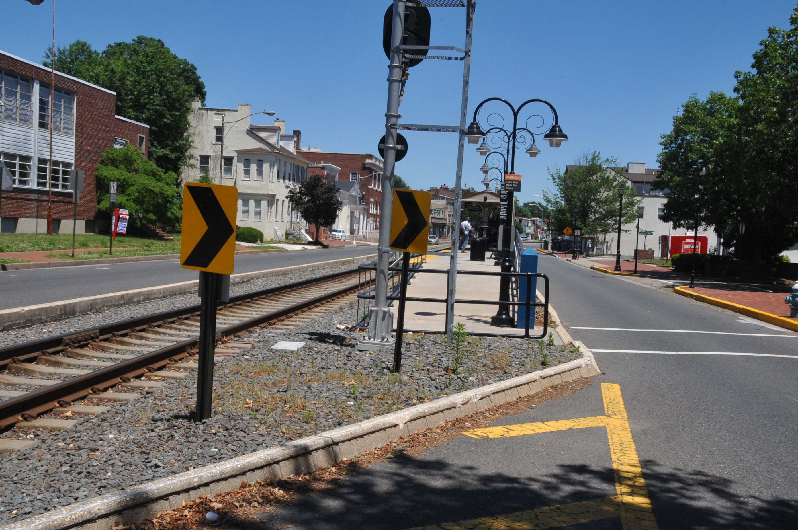 WHEN THE EXCAVATIONS WERE BEING DONE TO PUT THE RAILROAD TRACK DOWN THE CENTER OF BROAD STREET THEY ENCOUNTERED A GROUP OF BODIES WHICH ARCHEOLOGISTS DETERMINED WERE OF NORTHERN EUROPEAN ORIGIN CIRCA 1650. SINCE THE ENGLISH DID NOT ARRIVE UNTIL 1670 THEY WERE PROBABLY OF SWEDISH OR FINNISH ORIGIN. I WAS FORTUNATE ENOUGH TO HAVE THE PASTOR OF NEW ST. MARY’S CHURCH, REVEREND HAYNES, SHOW ME THE EXACT SPOT OF THE BURIAL GROUND WHICH IS DIRECTLY IN FRONT OF WHERE I STOOD TO TAKE THIS PICTURE. PASTOR HAYNES OFFICIATED AT THE RE-INTERRMENT OF THE BODIES SO THERE IS NO DOUBT ABOUT THE EXACT SPOT.